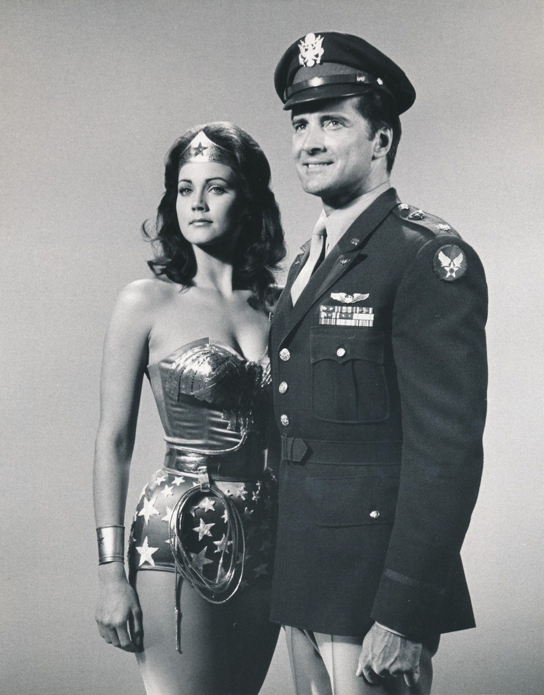 Lynda Carter and Lyle Waggoner star in "Fausta: The Nazi Wonder Woman".